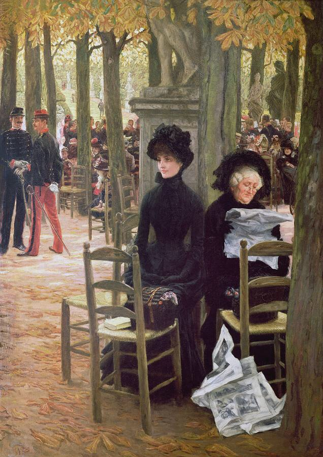 Sans dot